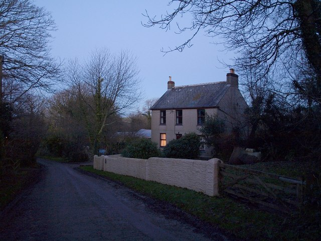 House in Demelza A light is on as darkness falls over the remote hamlet on the north-east slopes of the Tregonetha Downs.